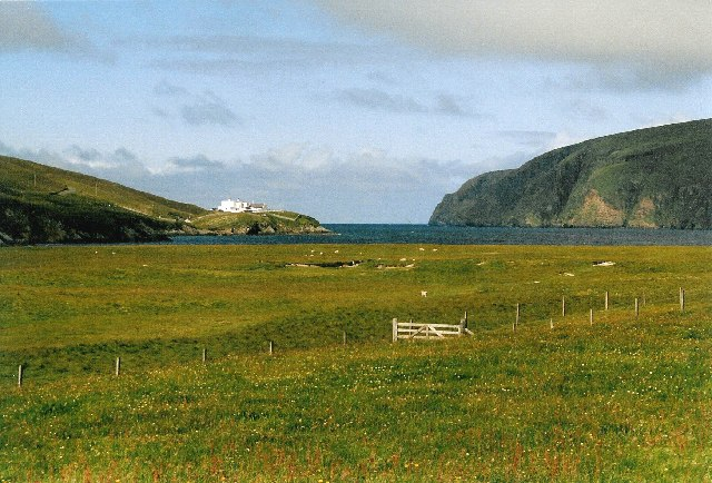 Hermaness visitor centre & fields at Burrafirth. The white buildings (middle distance) are the visitor centre. Beyond the end of the bay (Burra Firth), the next land is at the north pole!